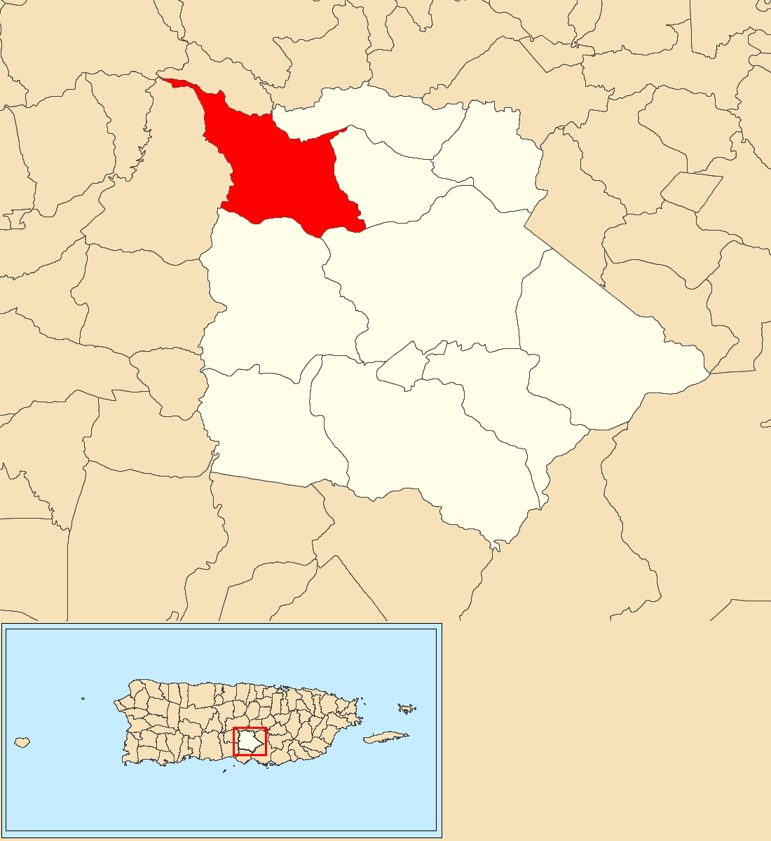 Pedro García, Coamo, Puerto Rico, locator map